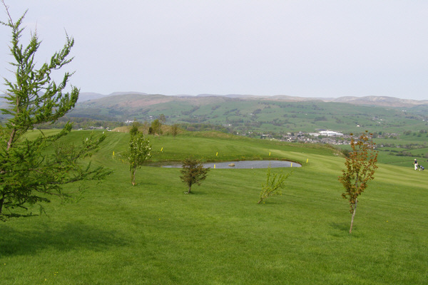 Golf Course above Kendal Course on Kendal Fell